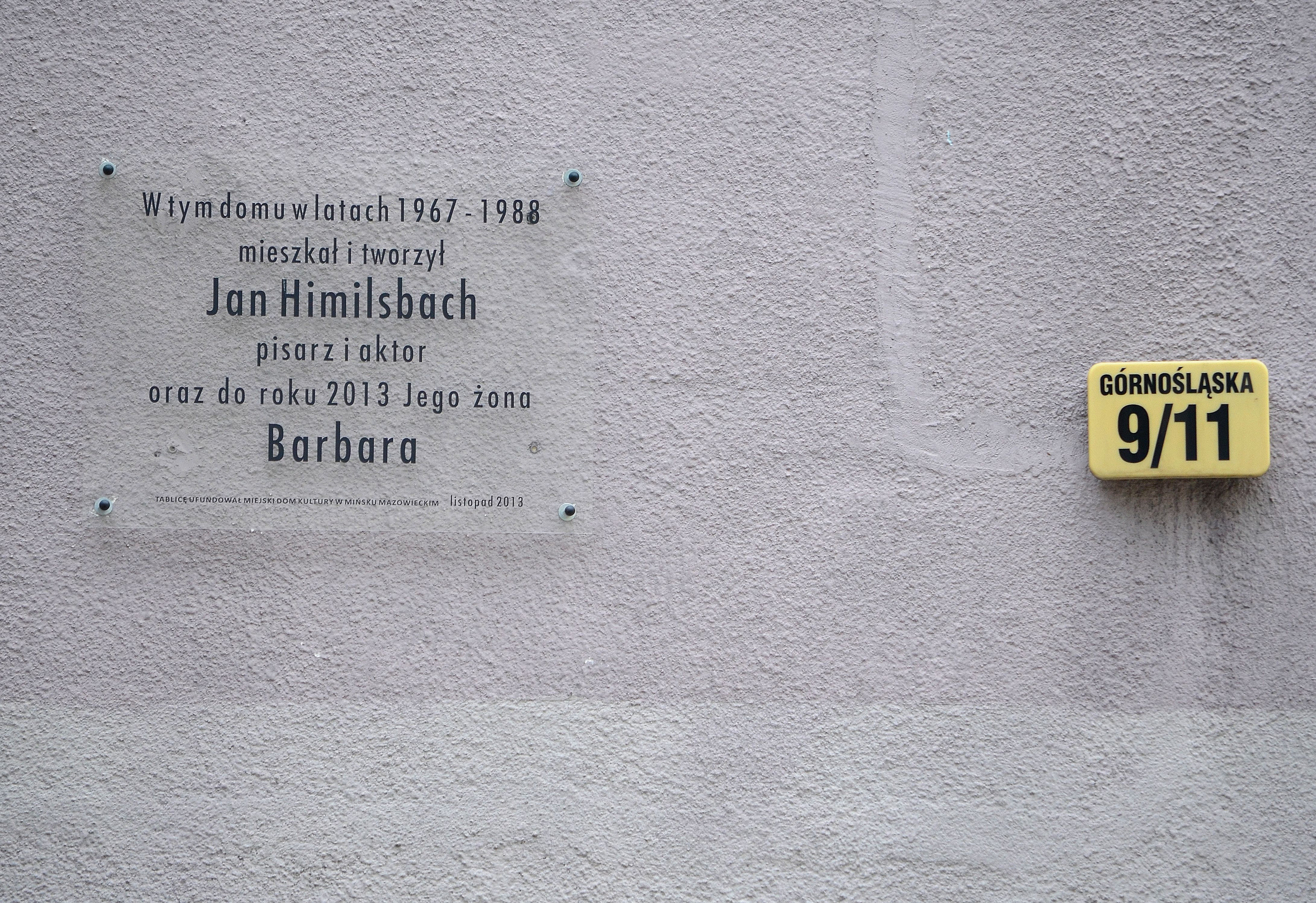 Plaque in memory of Jan Himilsbach and his wife Barbara at 9/11 Górnośląska Street in Warsaw